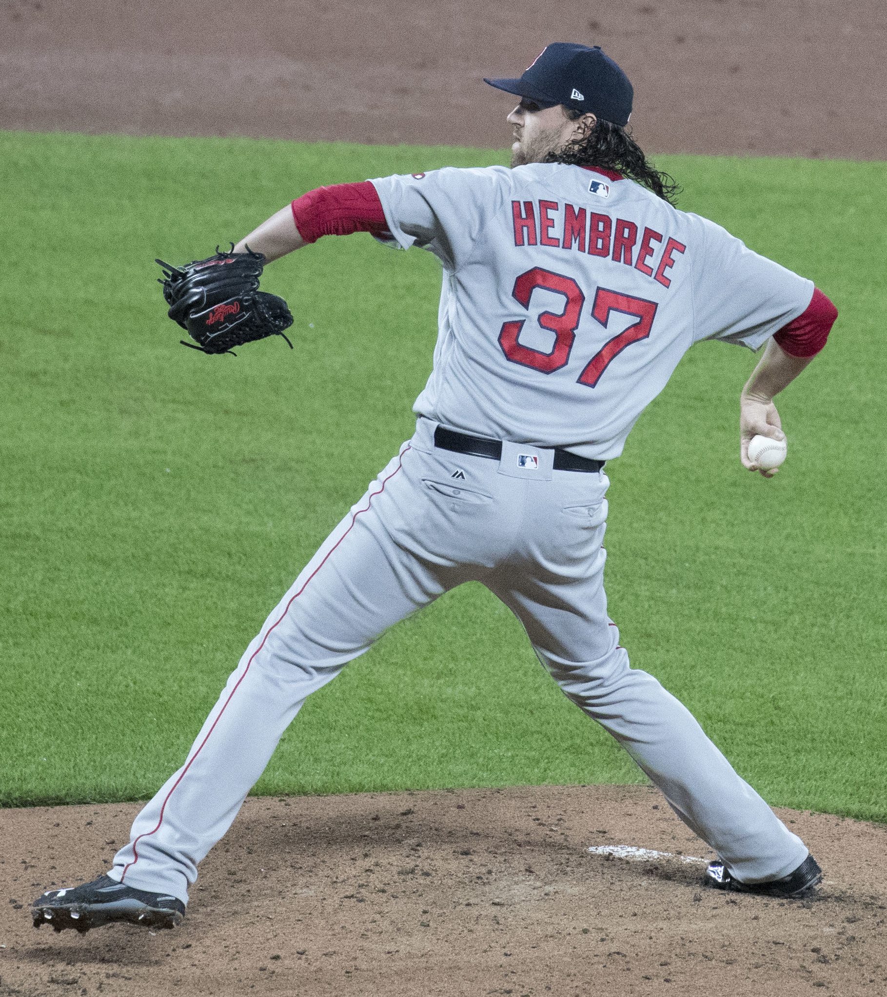 Red Sox at Orioles 9/18/17